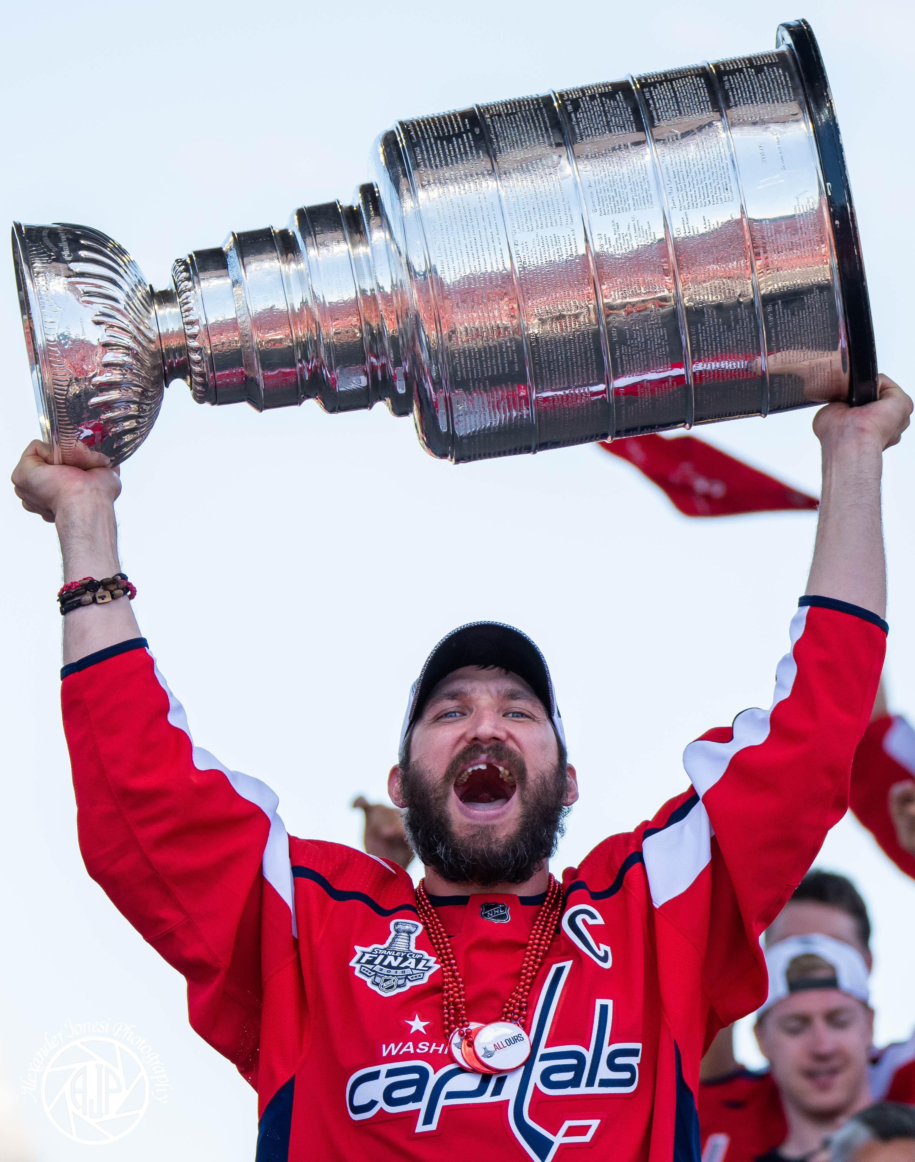 Alex Ovechkin with Stanley Cup